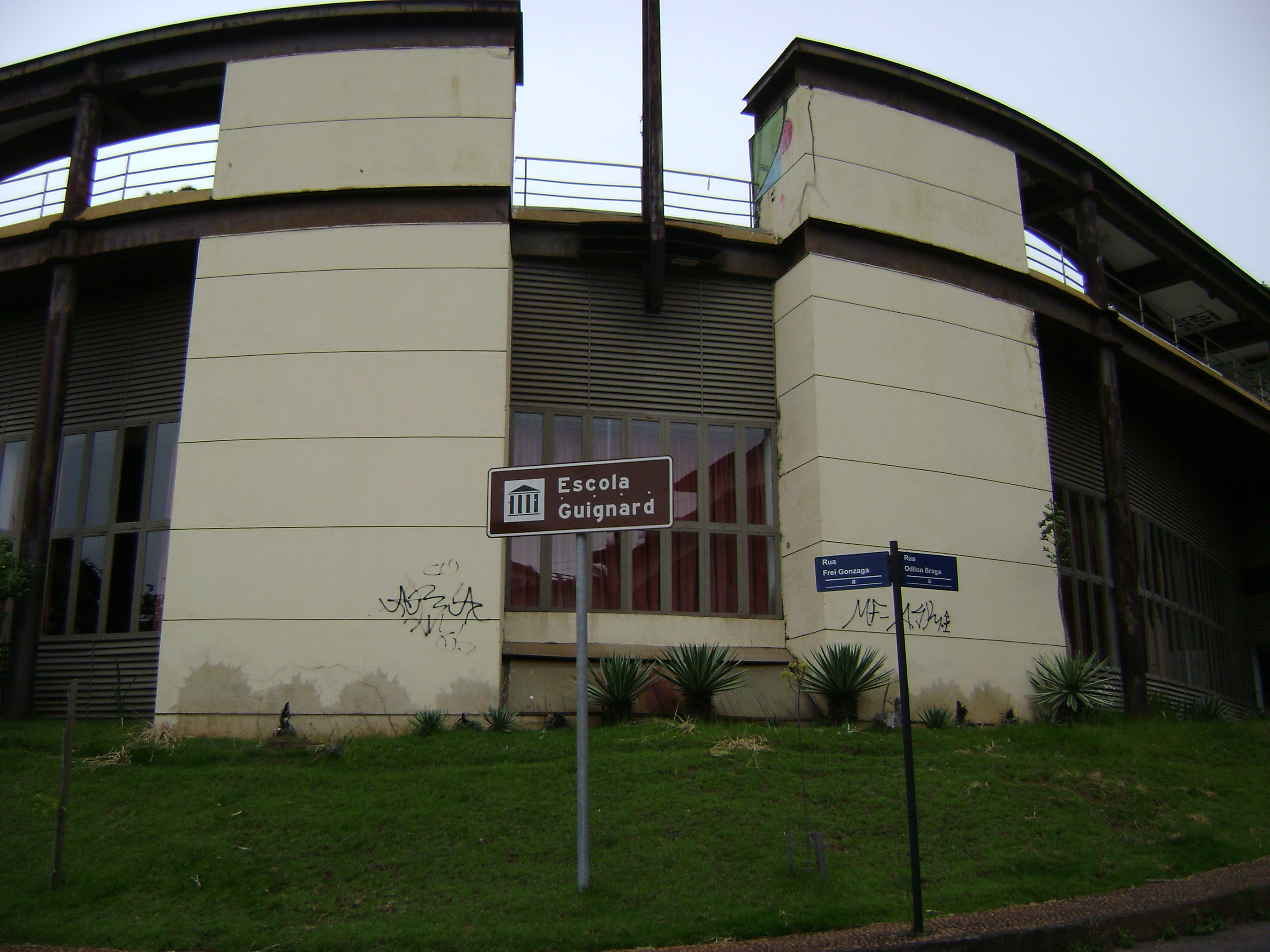 Guignard school, in Belo Horizonte.